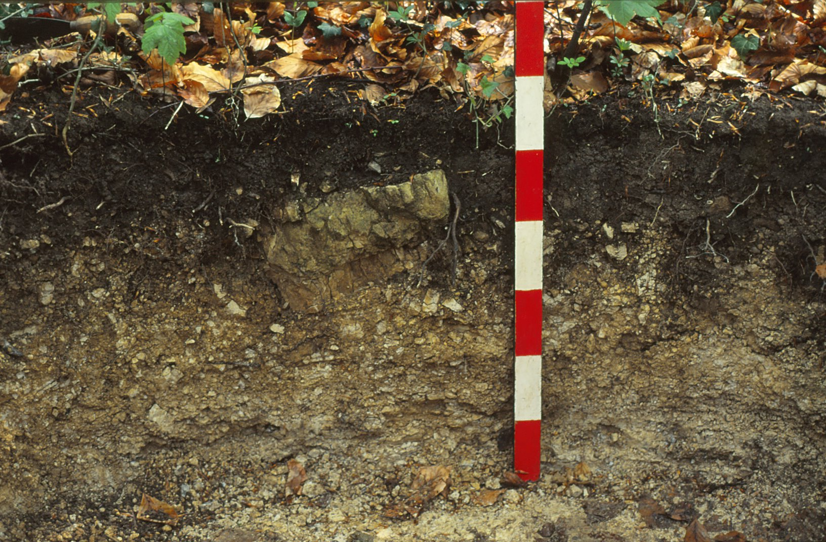 Rendzina on dolomite. Dinkelberg, Southern Black Forest, Germany.